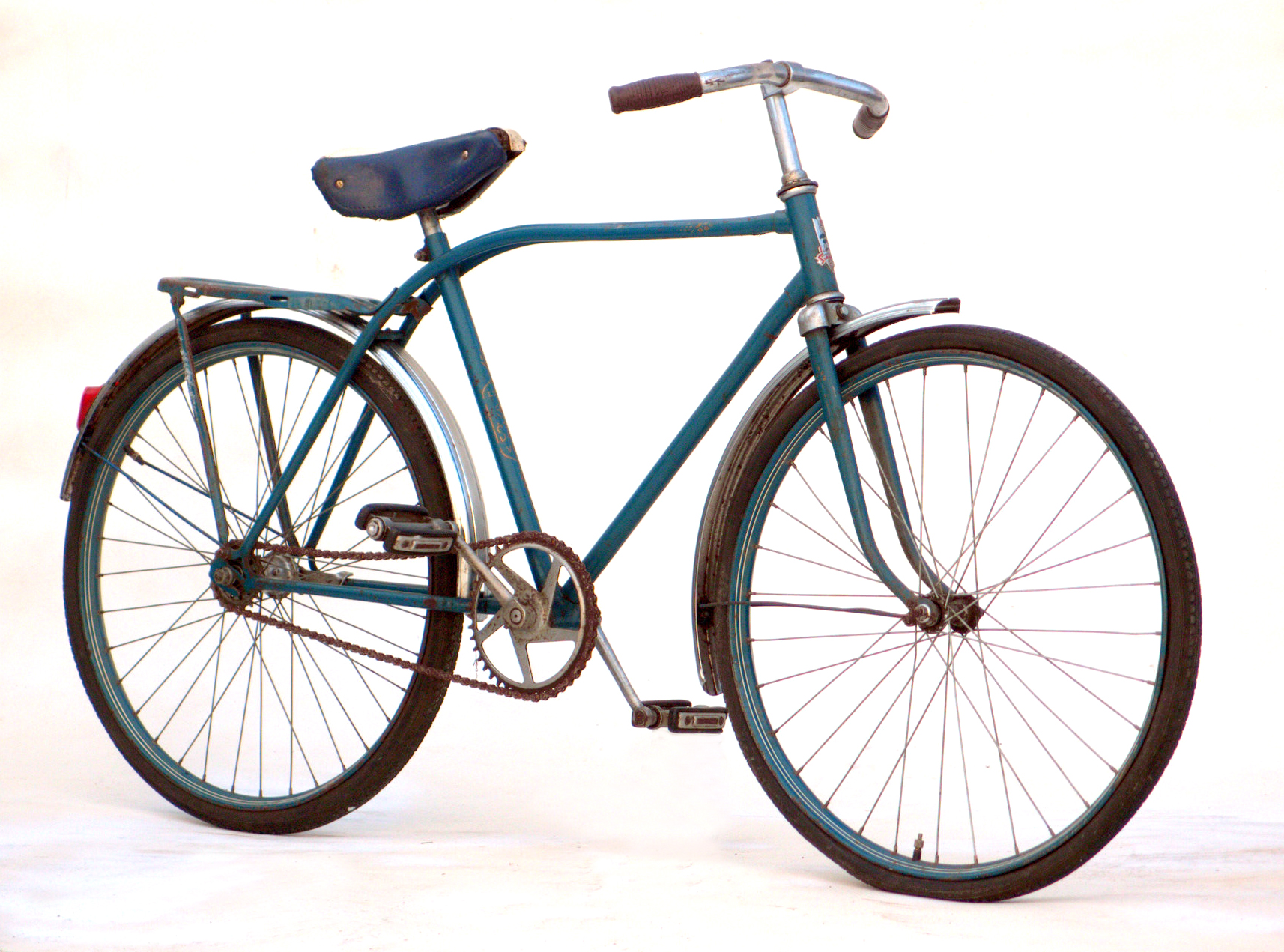 USSR (Lithuanian SSR) junior bike W-72 "Ereliukas" 1962